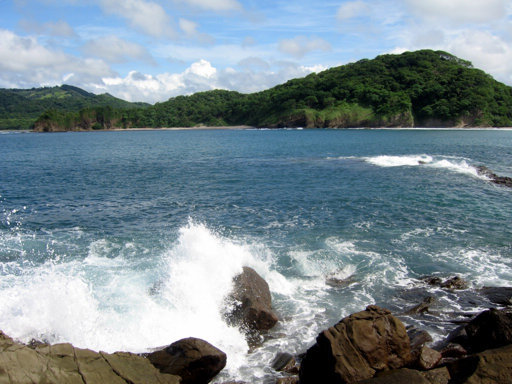 Beach - Bahia Majagual (close up) in Nicaragua